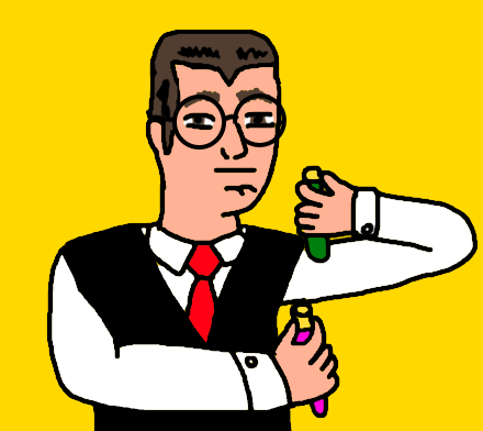 Image depicts Peter testing out chemicals in test tubes.